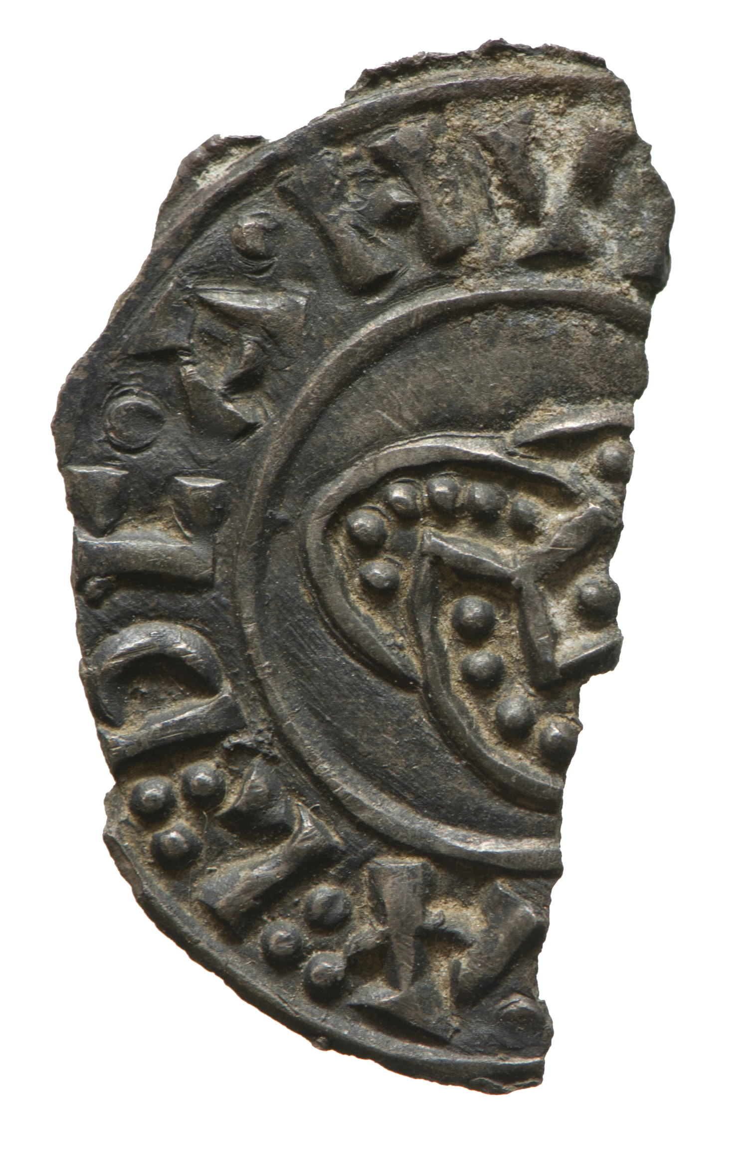 Obverse (front) of a partial silver penny of Ragnall Guthfrithson Triquetra